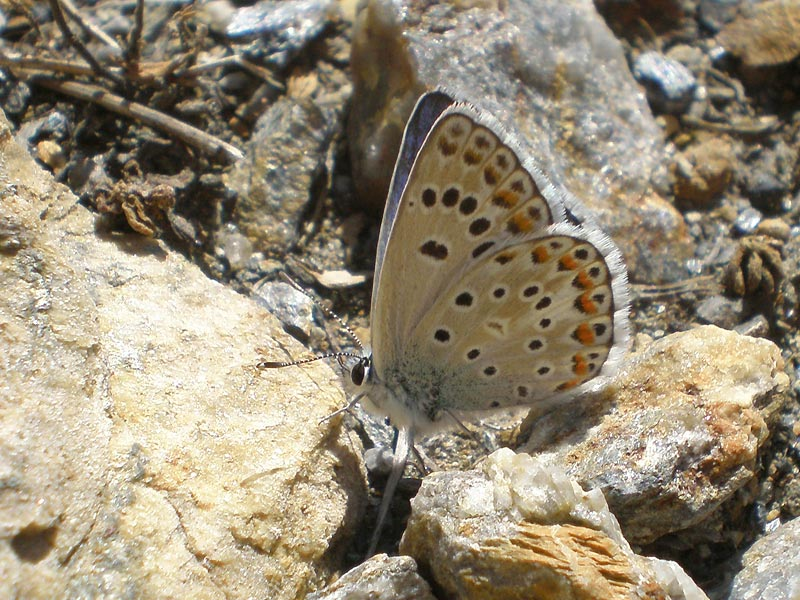 Male near Canillo, Andorra. - August 17, 2007